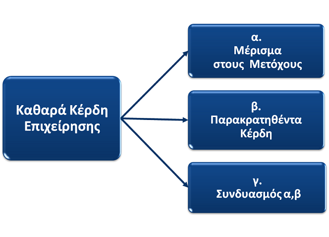 Dividend policy decisions